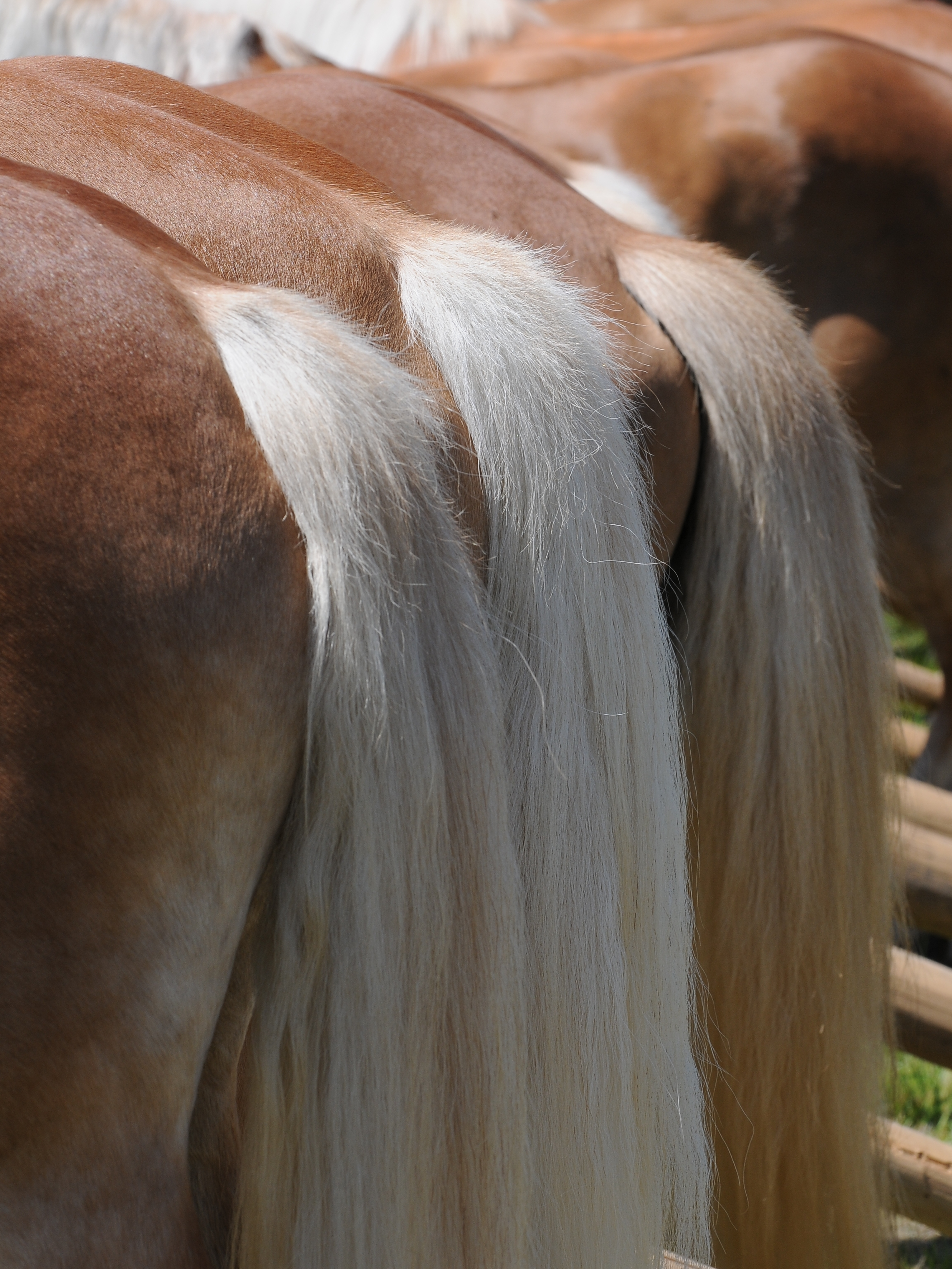 The Haflinger is a breed of horse developed in Austria and northern Italy during the late 1800s.